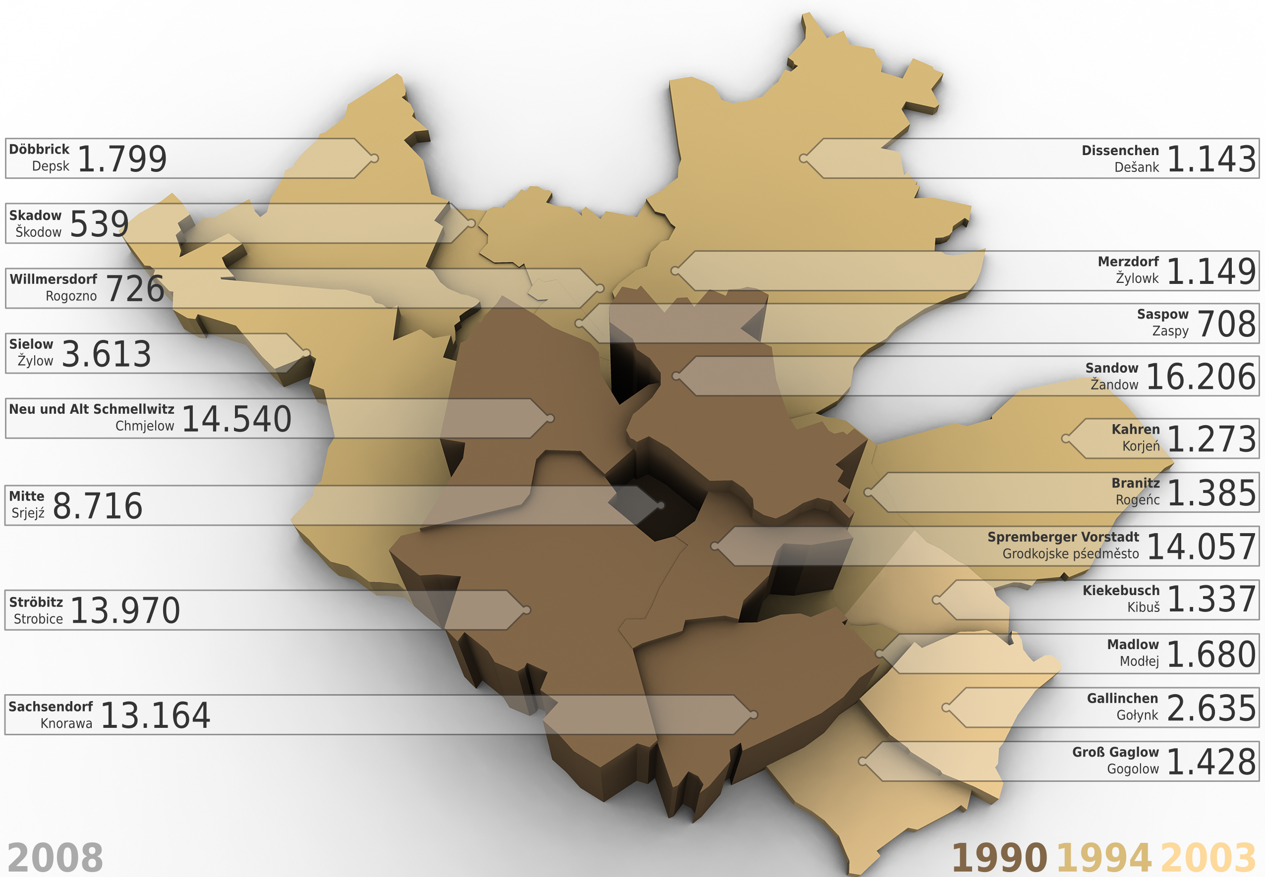 Distribution of population in Cottbus. Effective 2008. Different colors show dates of incorporation.